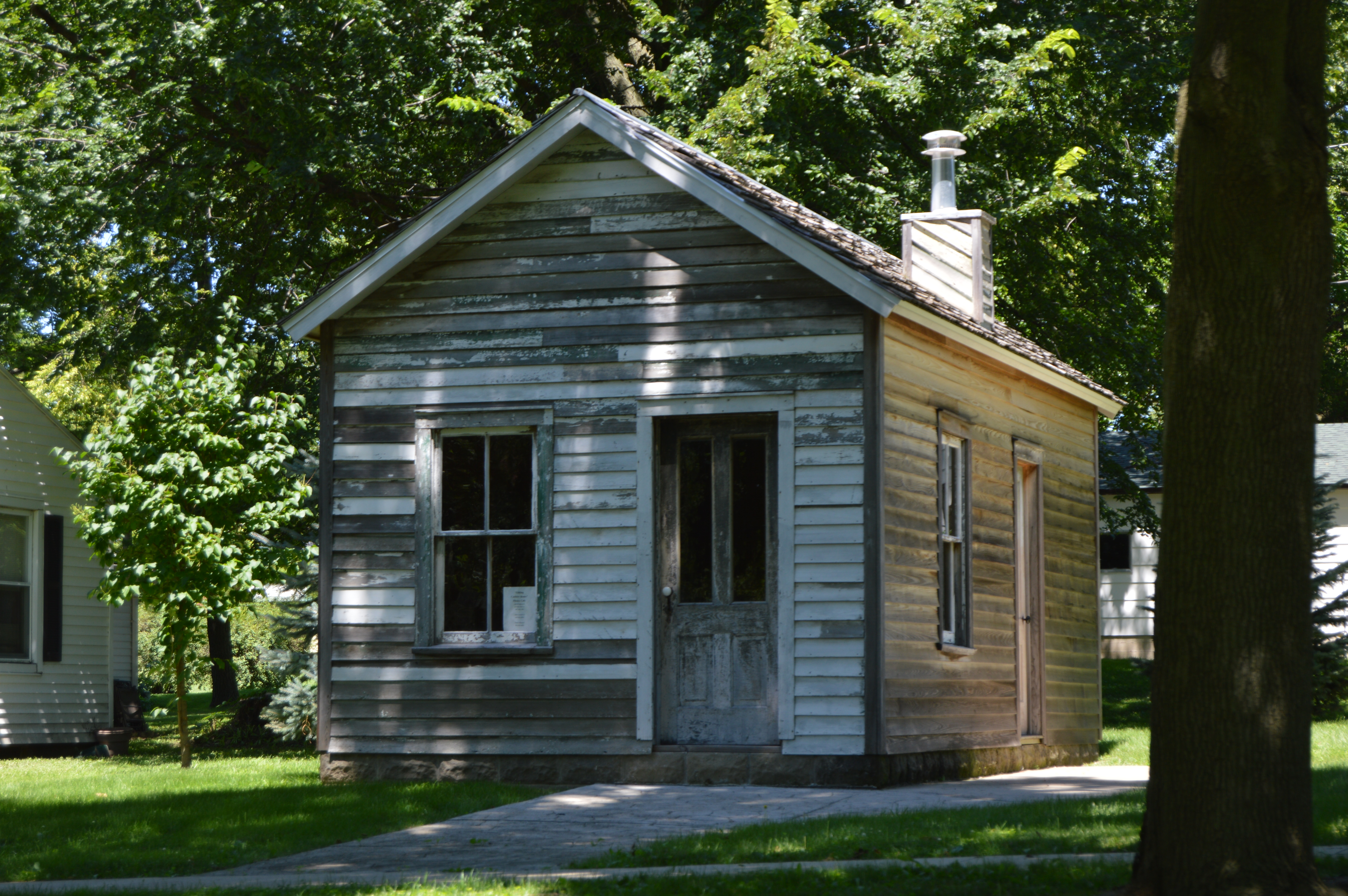 Front and eastern side of the small house on the northwestern corner of Center and Maple in Saunemin, Illinois, United States. This was the home of Jennie Irene Hodgers, a woman who disguised herself as a man under the name of "Albert Cashier" to fight in the American Civil War.